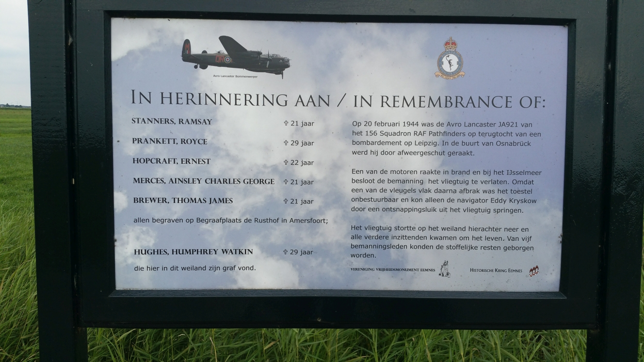 Sign to remember the allied airplane that crashed here on february 20, 1944.